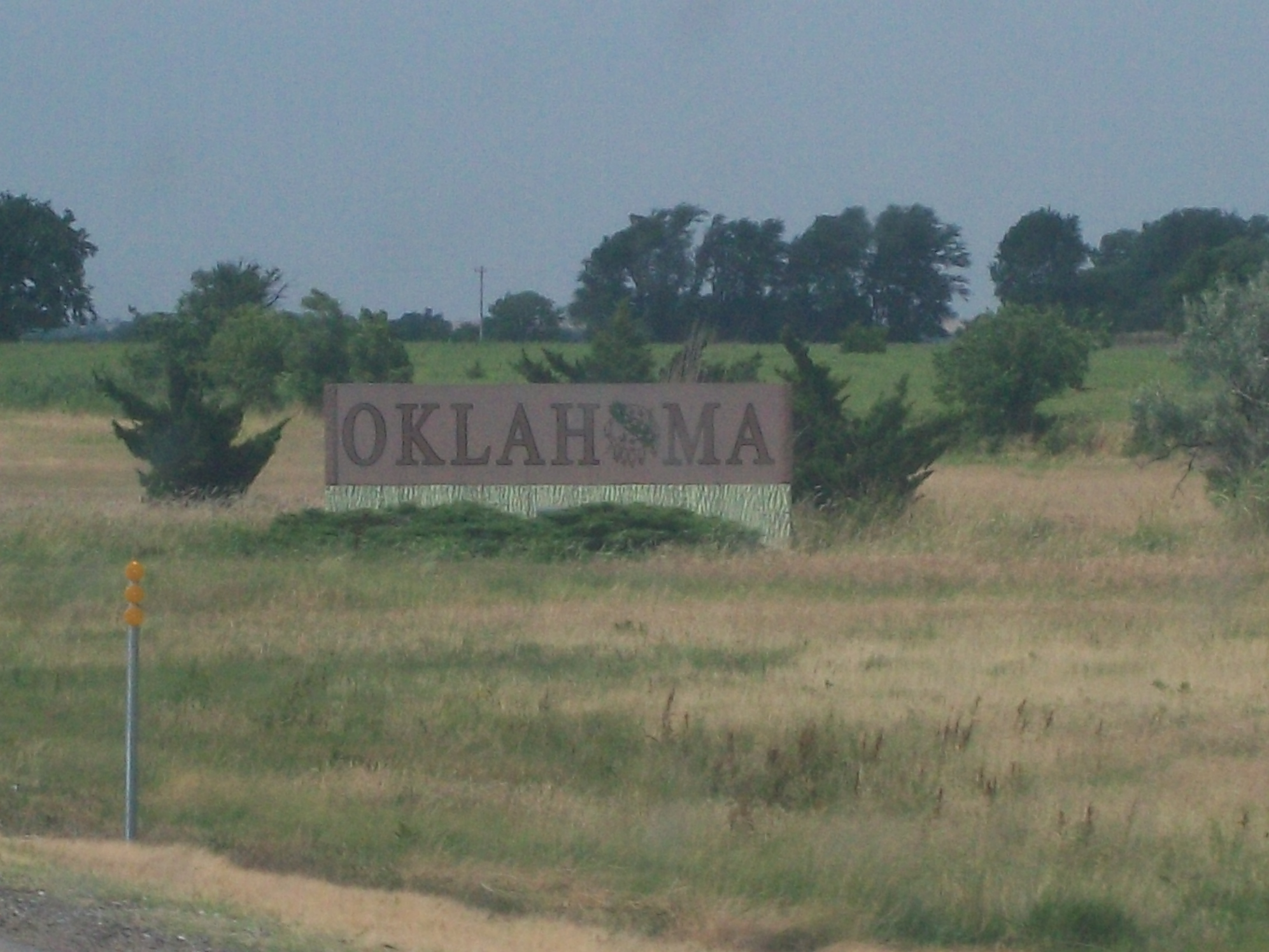 The "Welcome to Oklahoma" sign, heading south on Interstate 35, leaving Kansas and entering Oklahoma.